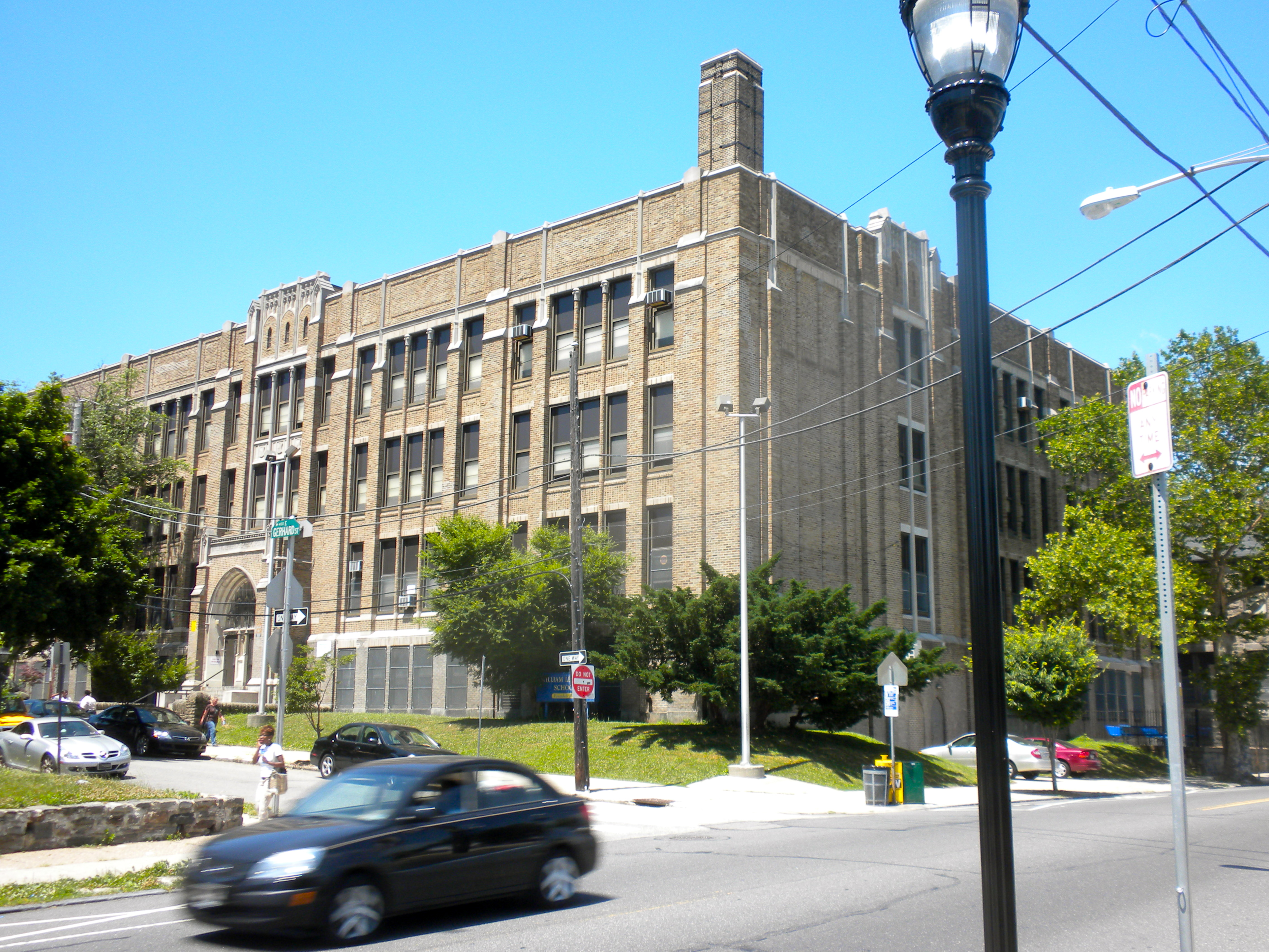 William Levering School on the NRHP since November 18, 1988. At 6000 Ridge Avenue in Roxborough neighborhood of NW Philadelphia. This part of the school was built in 1928, and the older section was REbuilt in 1895 (according to date stones). According to plywood sign in front of school (partly hidden behind telephone pole) the school was founded in 1748.